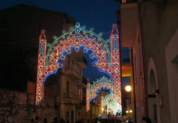 Pedace